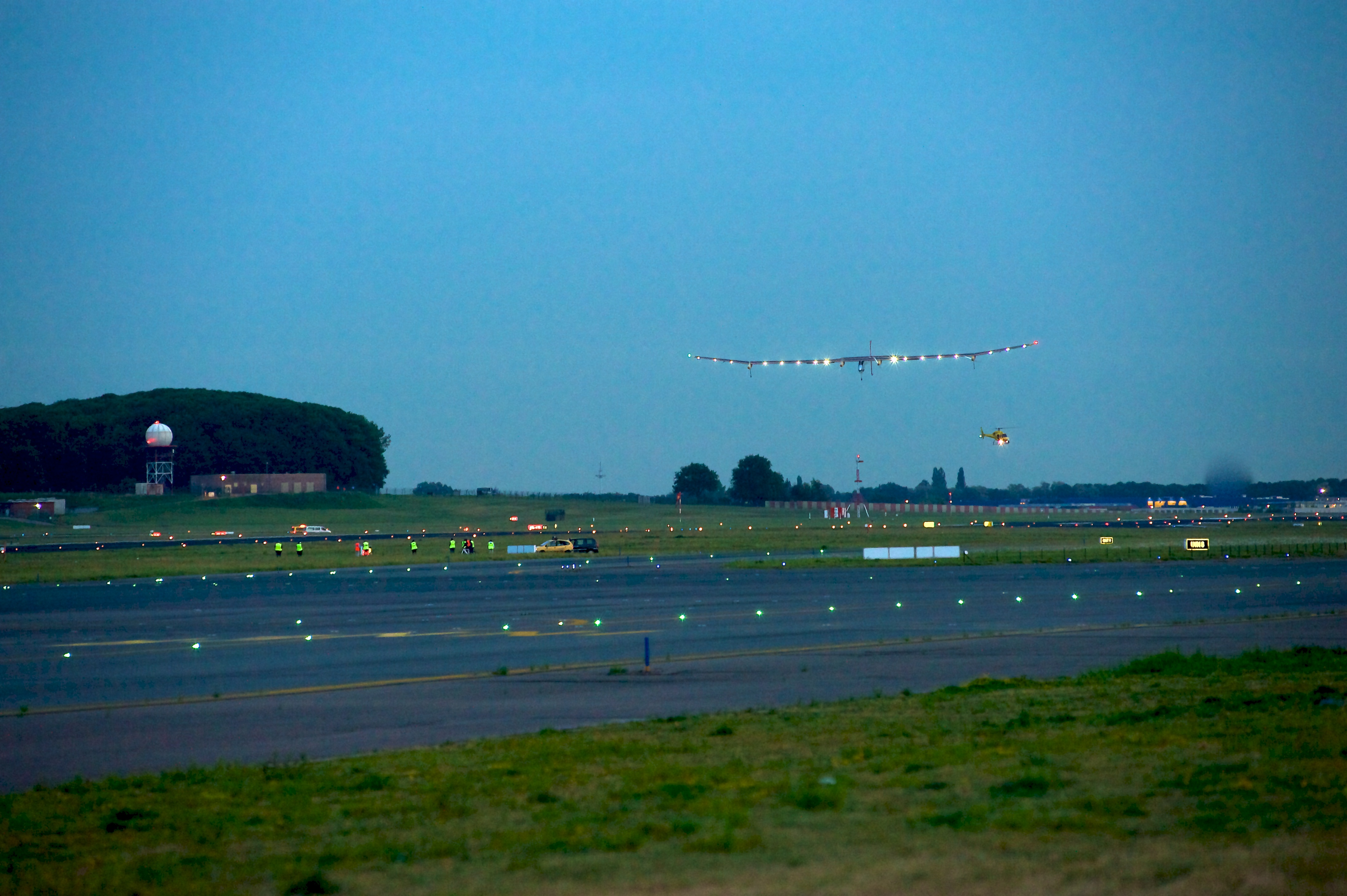 Solar Impulse HB-SIA landing at Brussels Airport